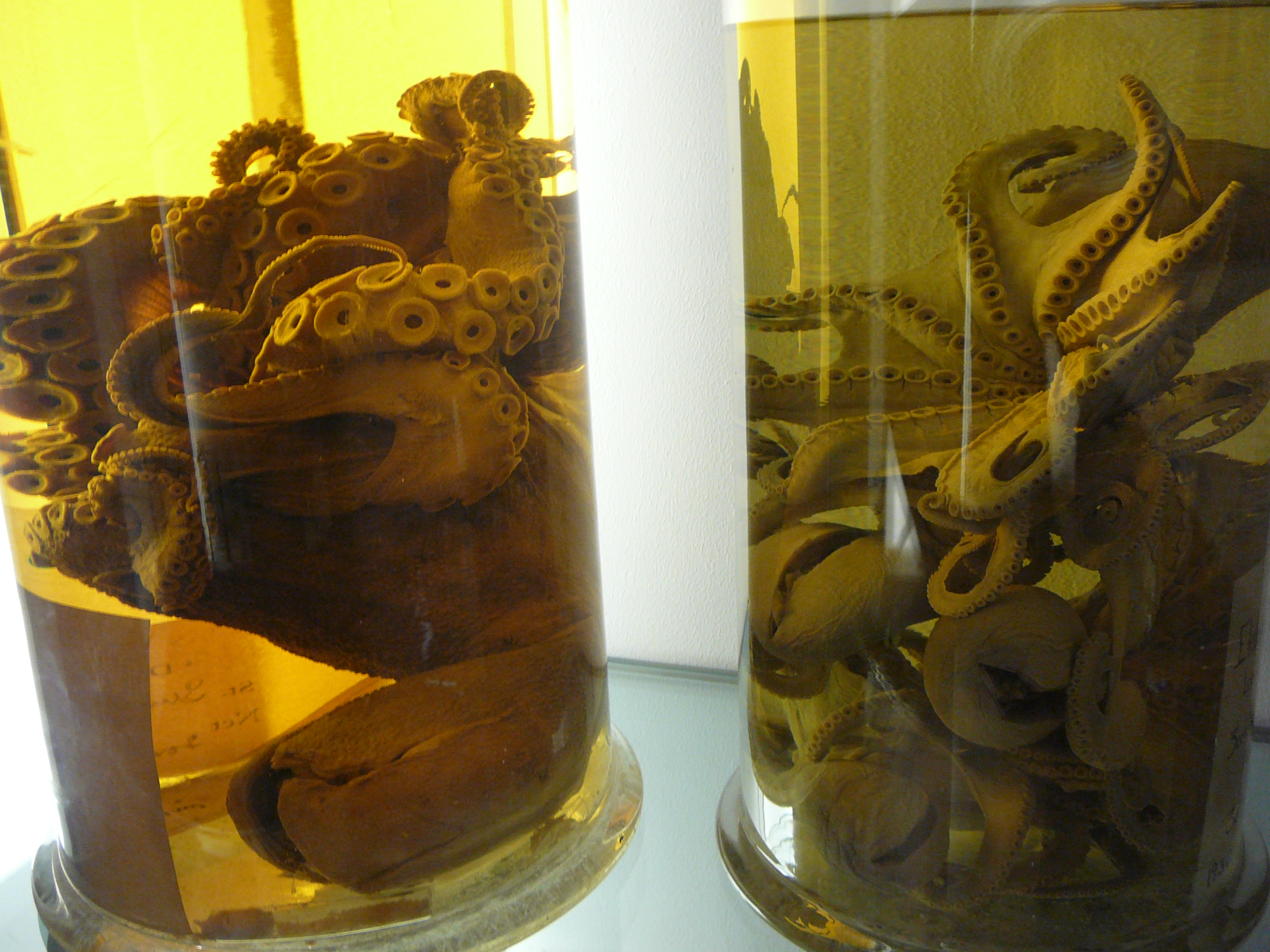 Octopi in formaldehyde - NHM